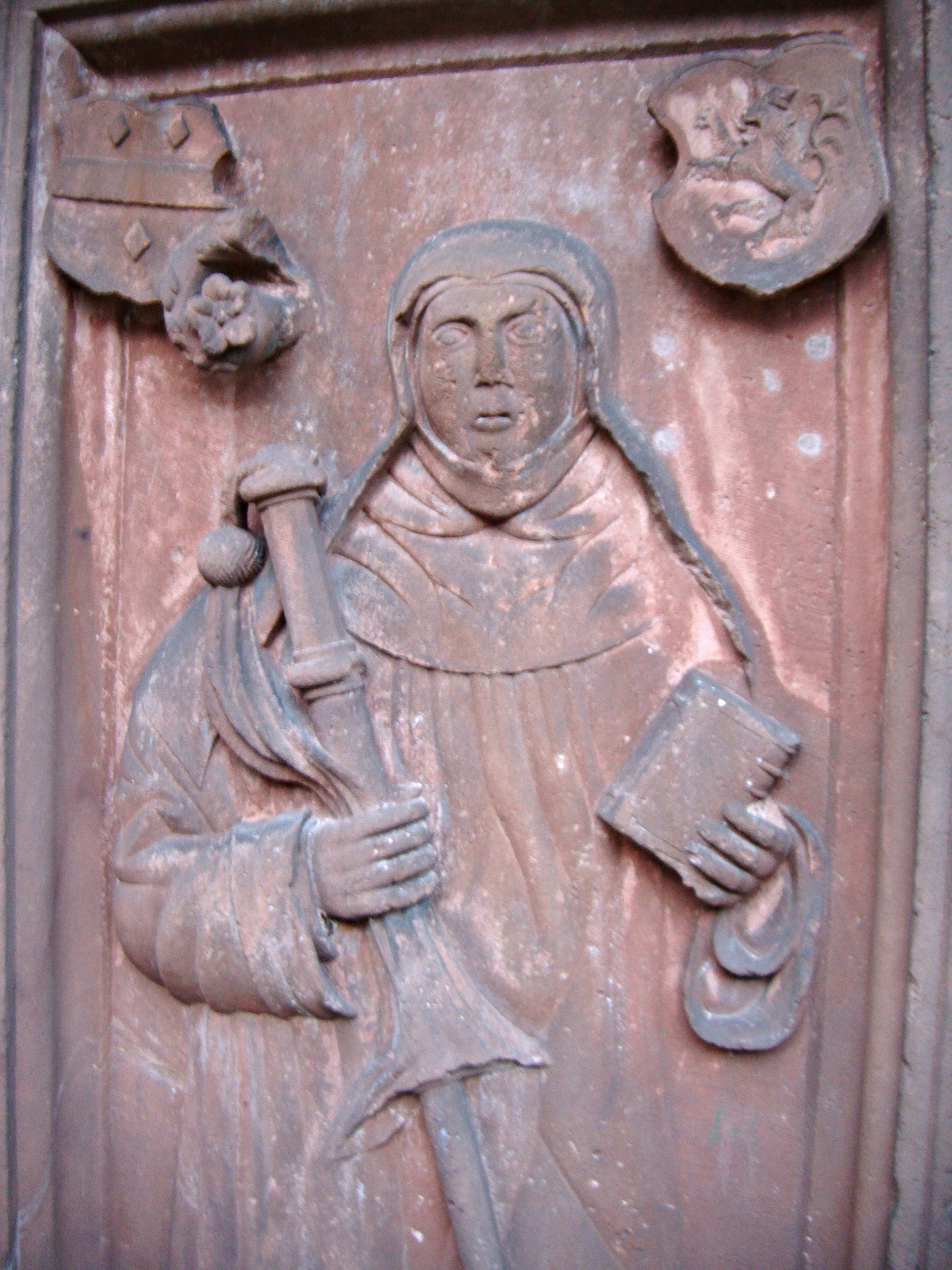 Grabplatte der Äbtissin Barbara von Heppenheim genannt vom Saal, (+ 1567), Kirchenruine Rosenthal